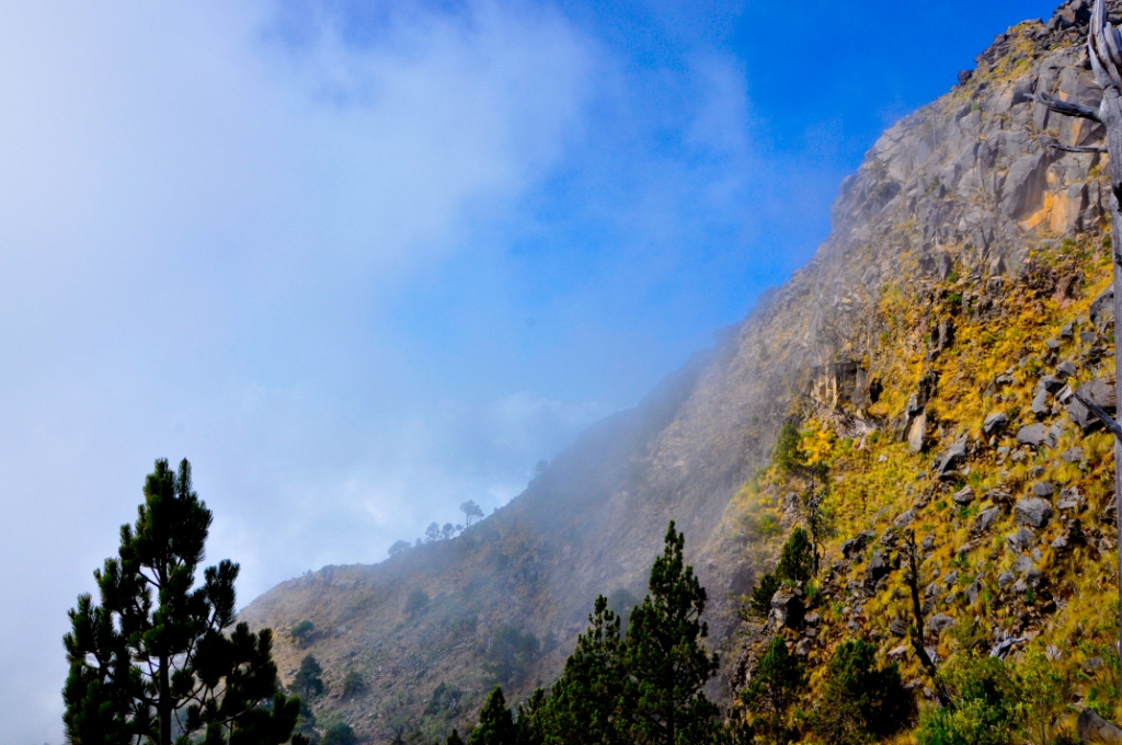 On the slopes of Tacana Volcano/